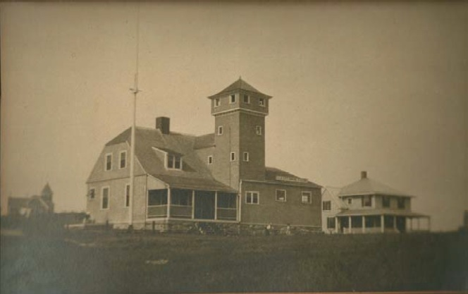 A view of Coast Guard Station Manomet Point in 1909.